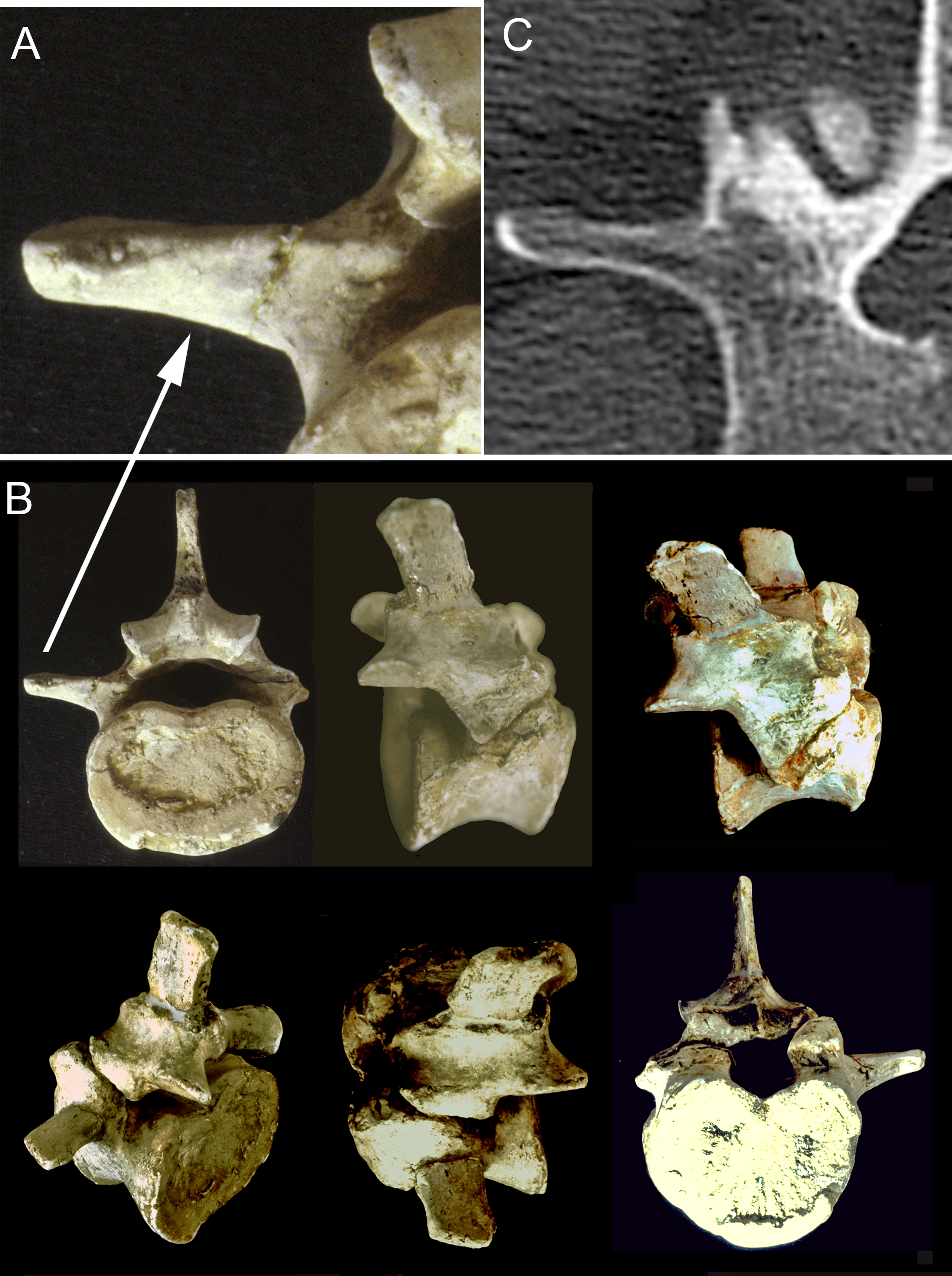 Abrupt homeotic transformation of the stem hominiform species. (A)-The lumbar vertebra of Morotopithecus bishopi (Early Miocene hominiform hominoid) has a shape and location of the LTP (lumbar transverse process) near the facet joint on the arch of the vertebra. (B)-The absence of a styloid process and the LTP attachment reaches above the pedicle and has the typical hominiform pattern retained in primitive form in modern humans. The pedicle is enlarged-as in humans. (C)-CT scan of modern human lumbar vertebra showing that the Morotopithecus LTP, pedicle, proportions and facet orientation are within the range of modern human architecture. These features suggest that Morotopithecus may have been the original hominiform upright biped as a consequence of a cluster of homeotic mutational events.